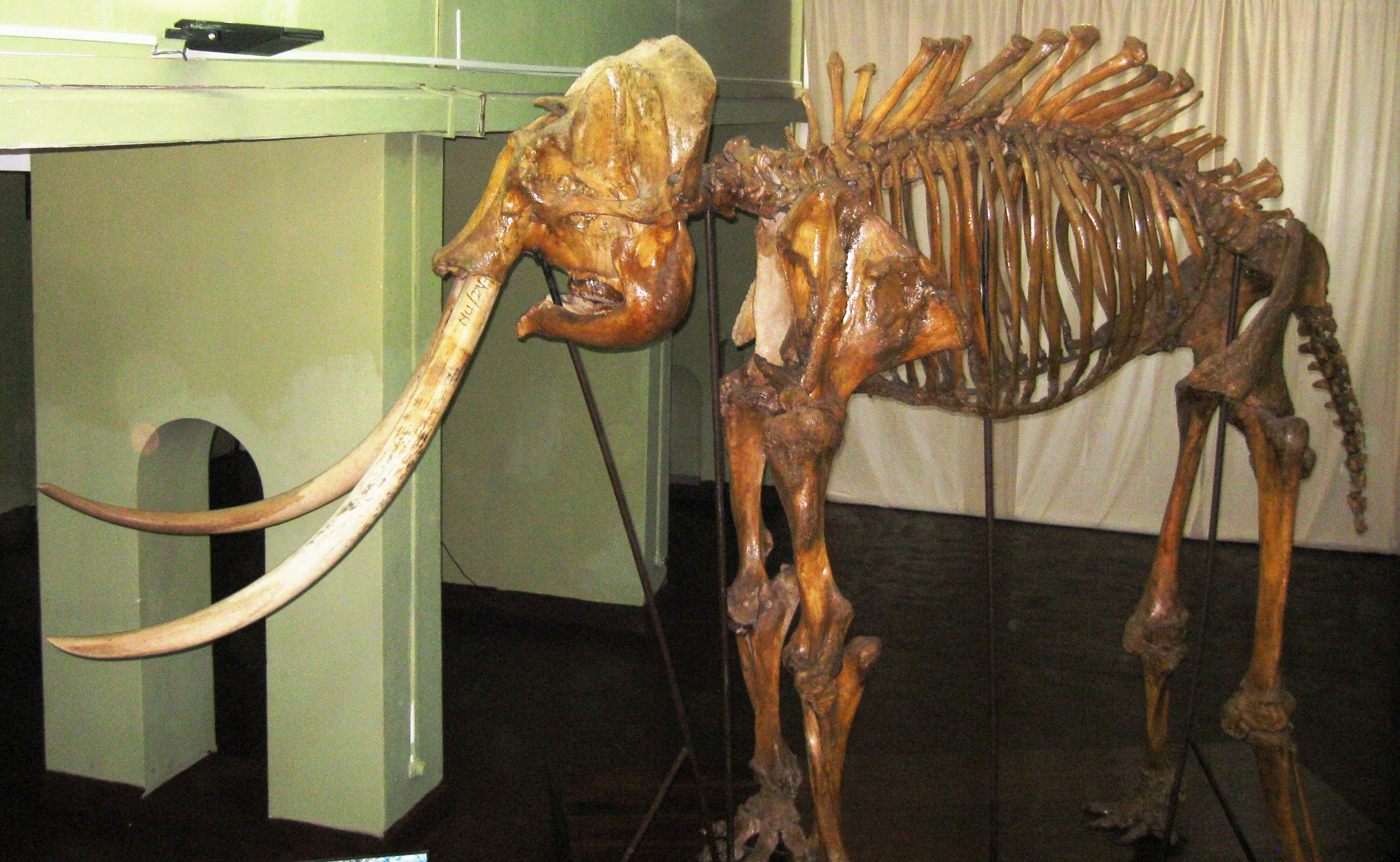 Photograph of Heiyantuduwa Raja's Skeleton